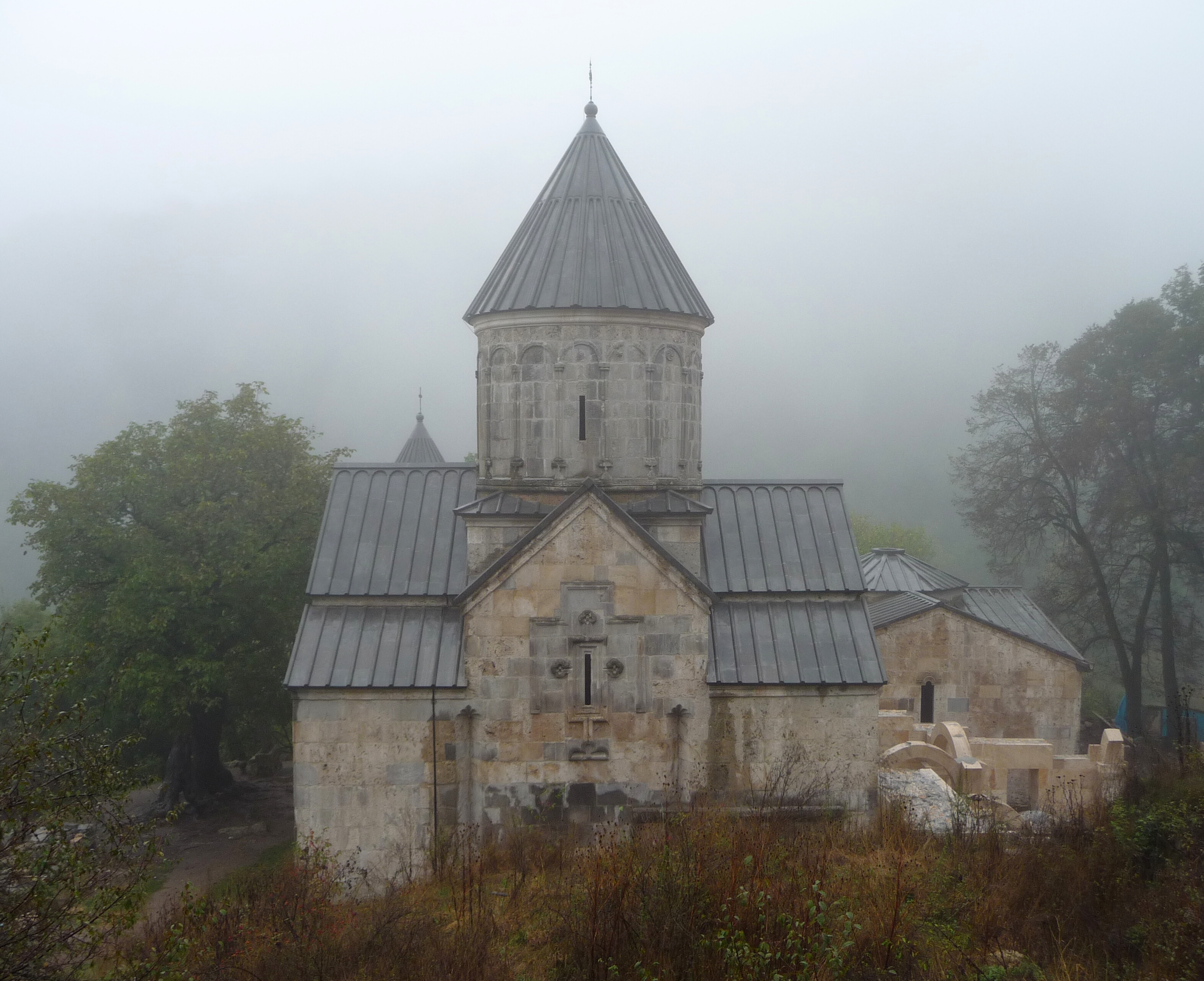 The Haghartsin Monastery (Tavush, Armenia).